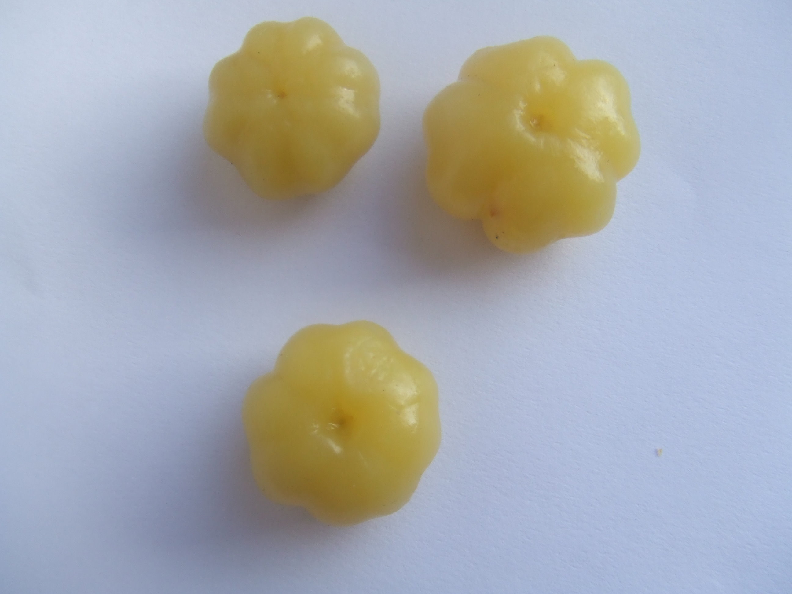 Phyllanthus acidus, bought at a Surinam tropical supermaket at the Nieuwe Binnenweg in Rotterdam, The Netherlands